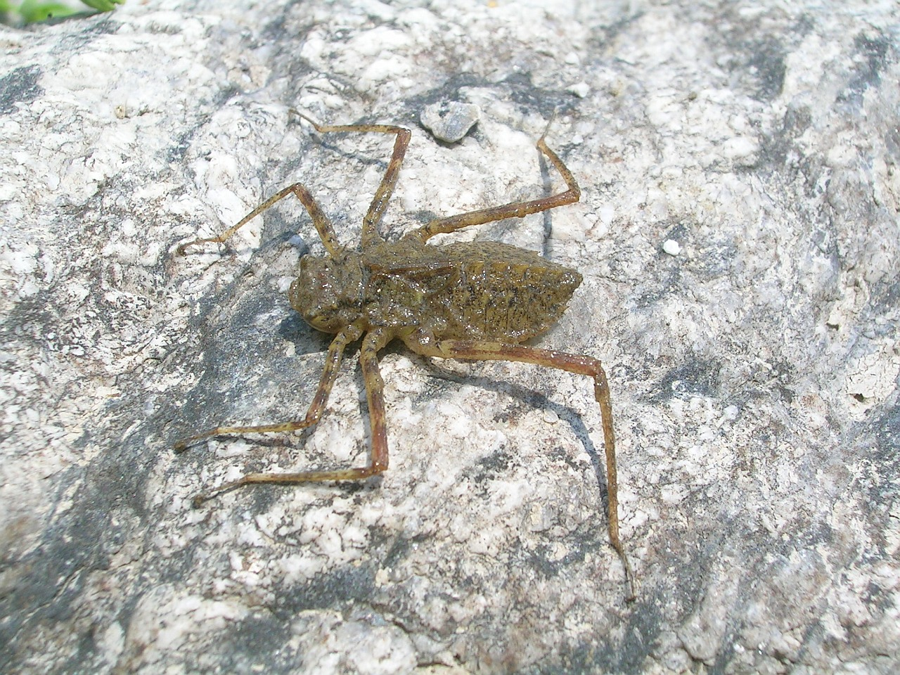 Nymph or Naiad of Dragonfly, Pithoragarh, Himalayas, India